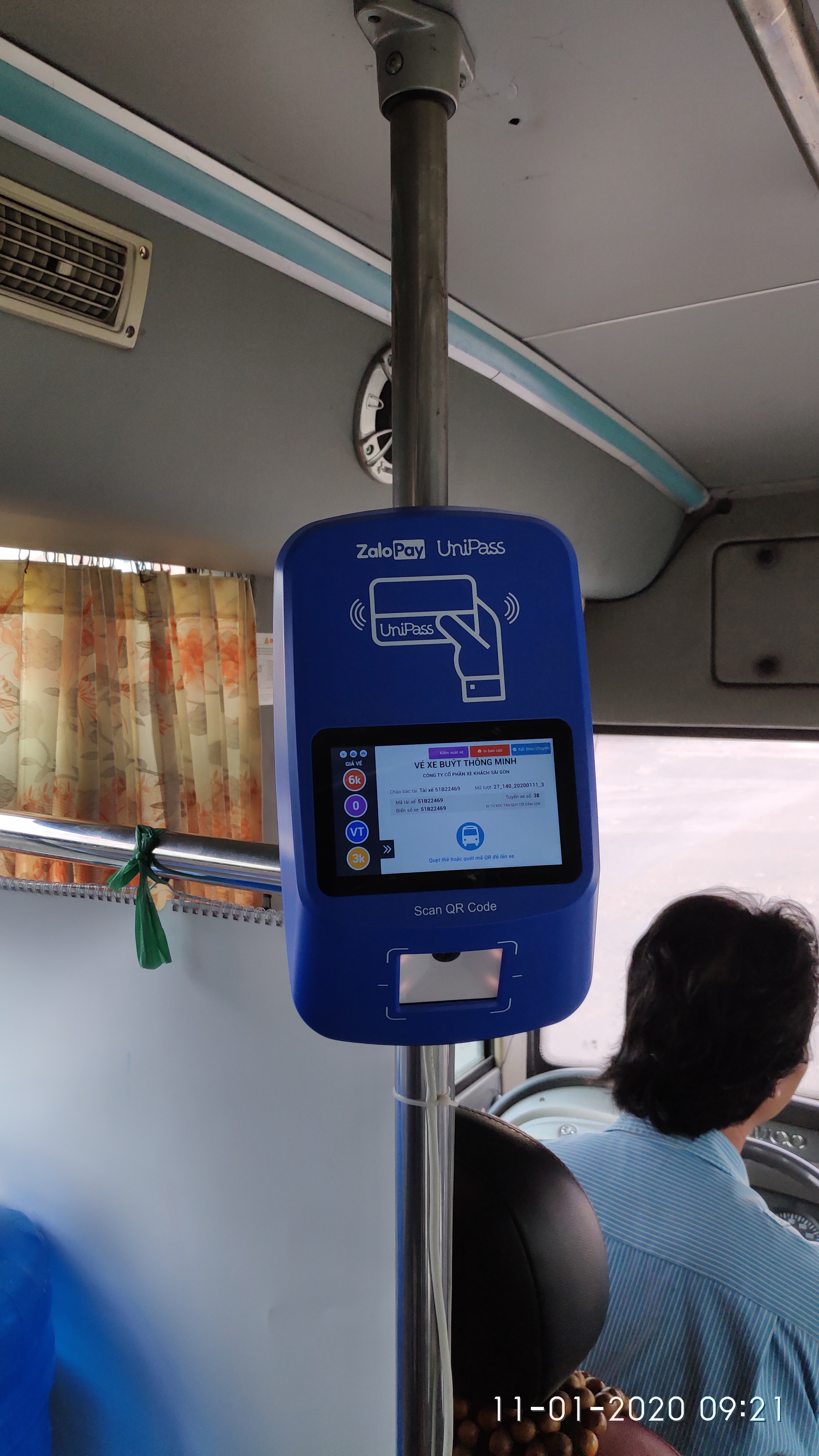 UniPass POS on bus line 38